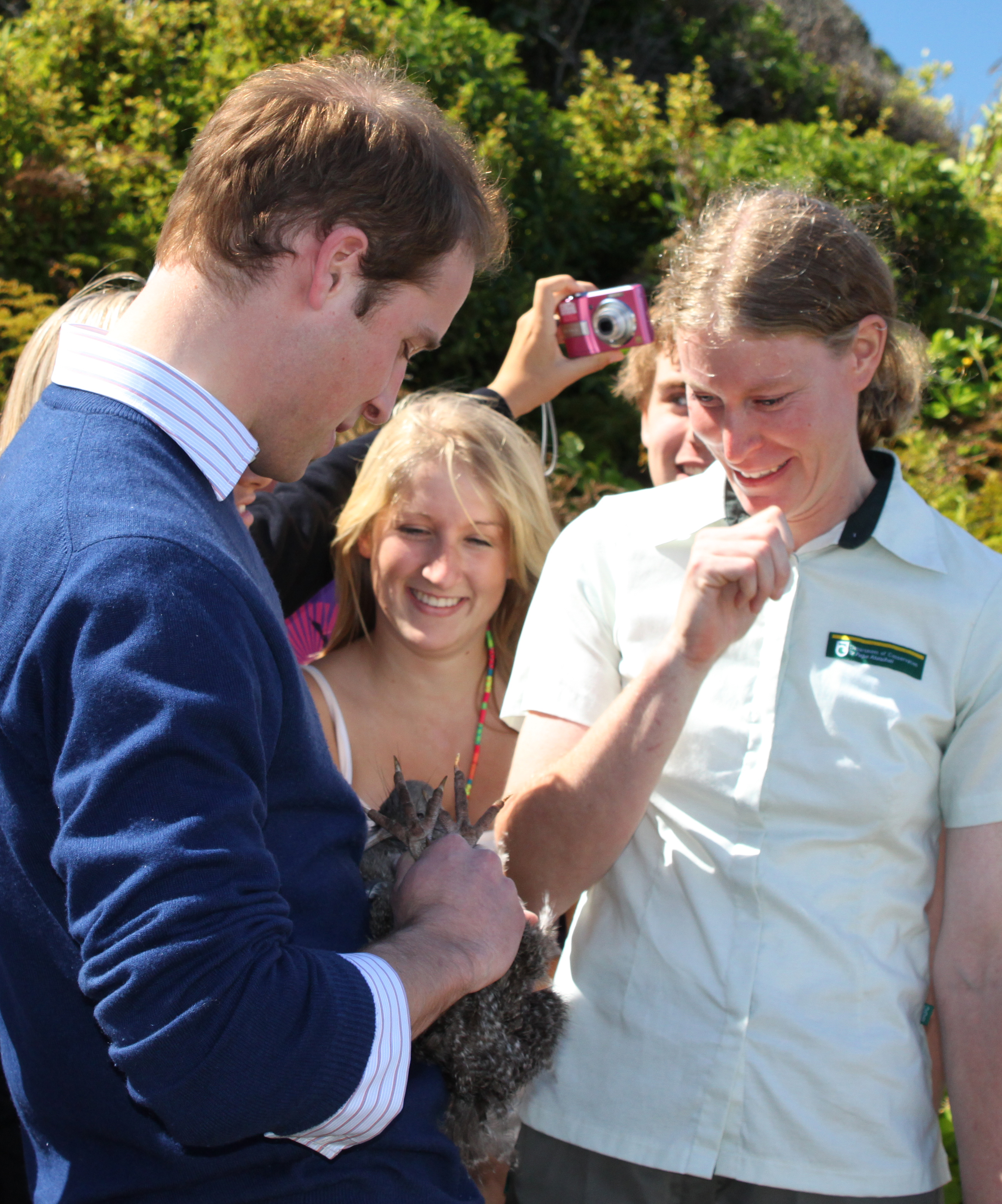 Prince William holds a kiwi on his recent trip to Kapiti Island.